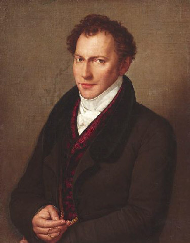 Portrait of Jakob Salomon Bartholdy (1779–1825)